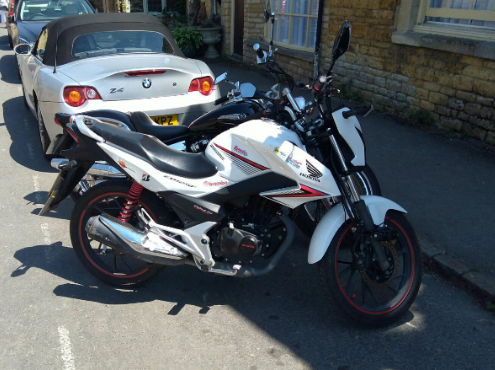 Example of a 2015 model CB125F. This was manufactured in 2017